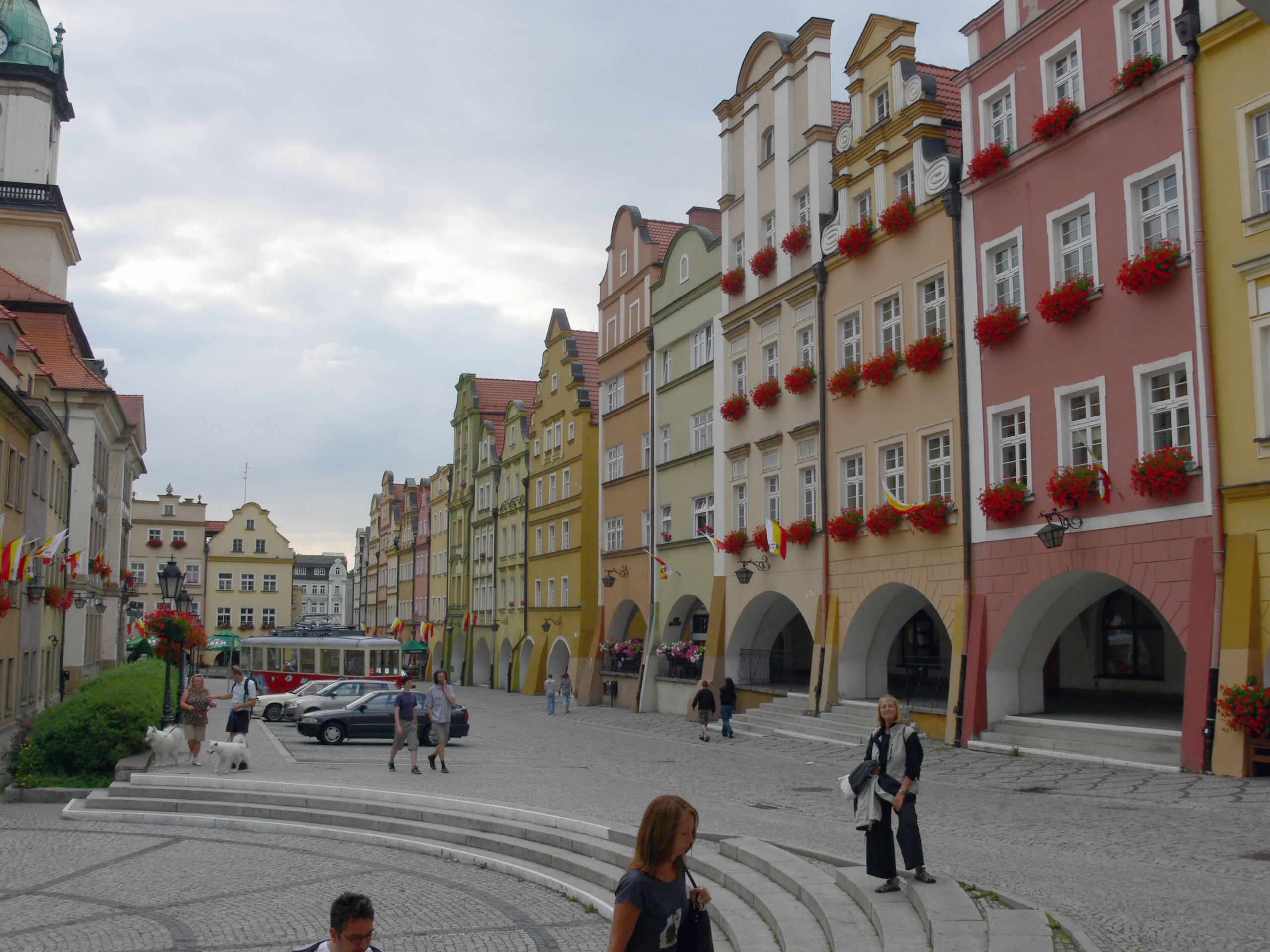 Market place of Jelenia Góra/Poland (German name: Hirschberg)